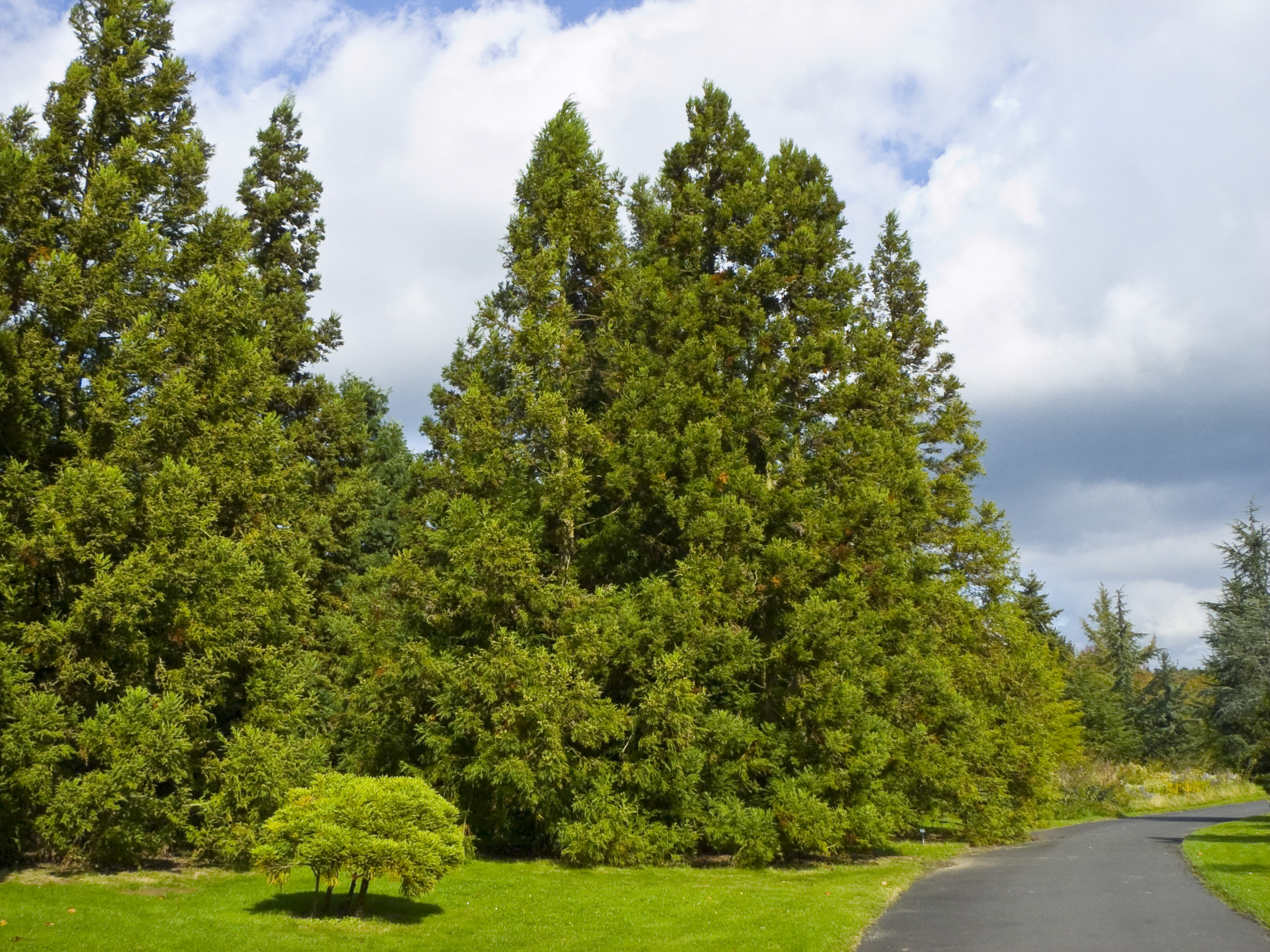 Cryptomeria japonica in the New Botanical Garden Marburg, Hesse, Germany